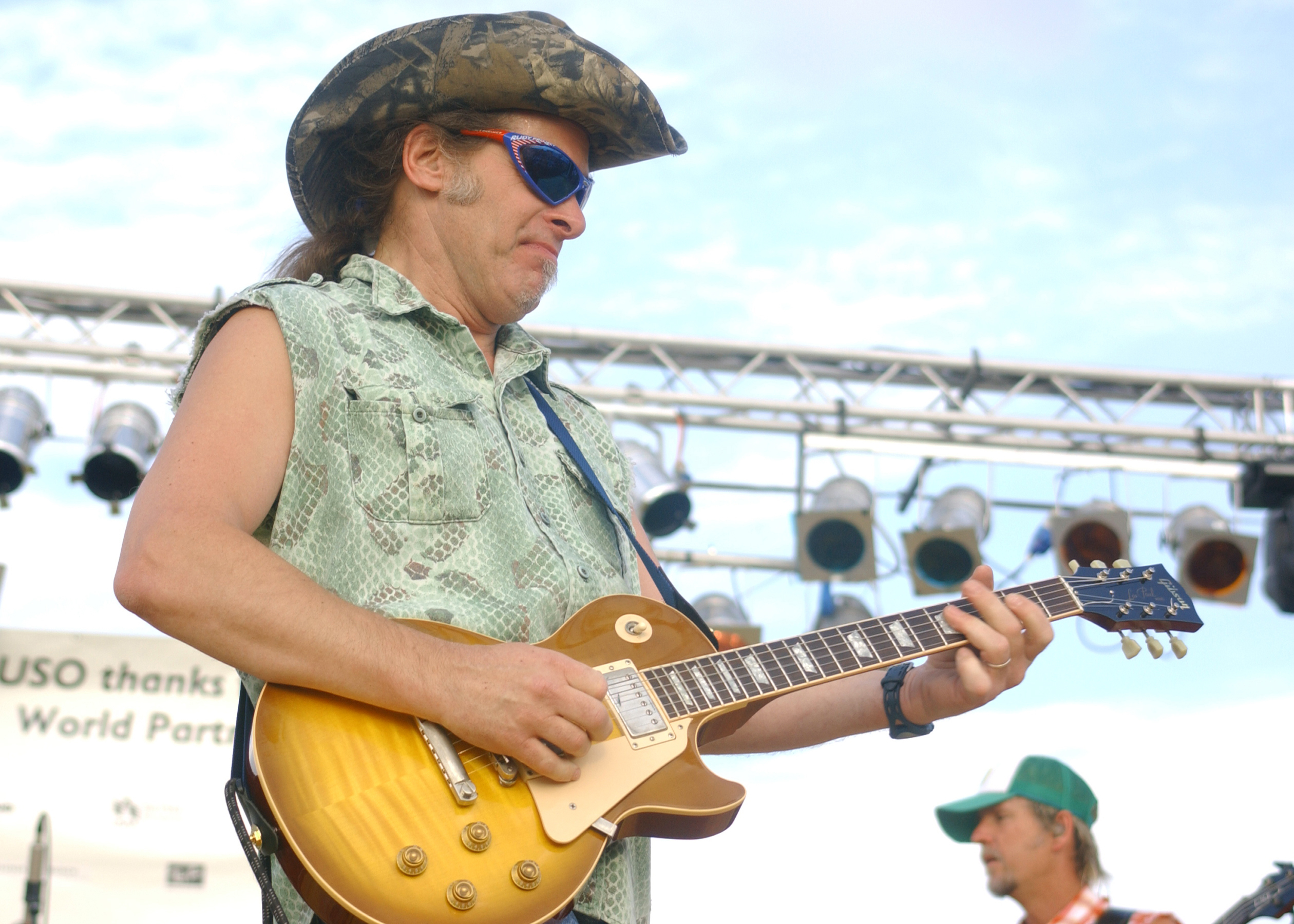 Naples, Italy (Jun. 1,2004) - Legendary rock star Ted Nugent performs to the roar of an excited crowd during a free concert held at Naval Support Activity (NSA), Naples, support site in Gricignano. The tour, sponsored by the Navy Moral Welfare and Recreation (MWR) and the United Service Organizations (USO) brought Nugent and Country music star, Toby Keith to U.S. bases throughout Europe. U.S. Navy photo by Photographer's Mate 1st Class Richard Kiroy (RELEASED)